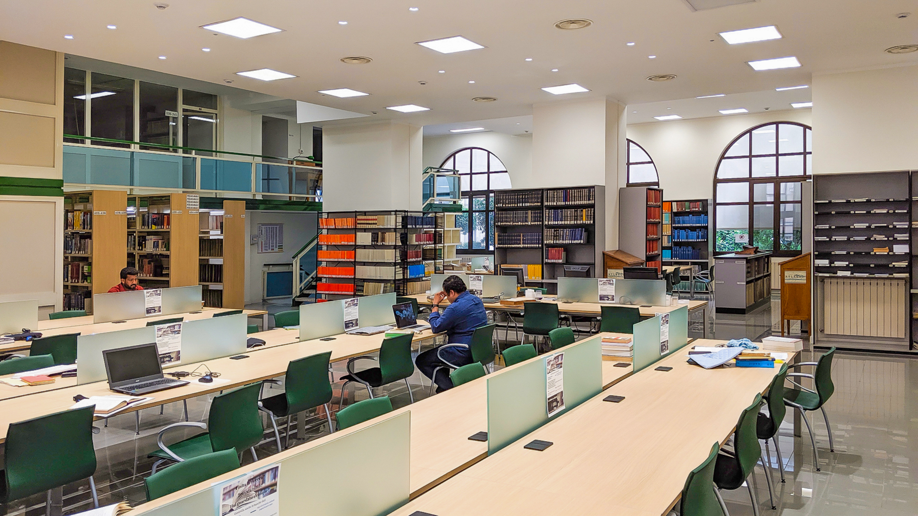 Library